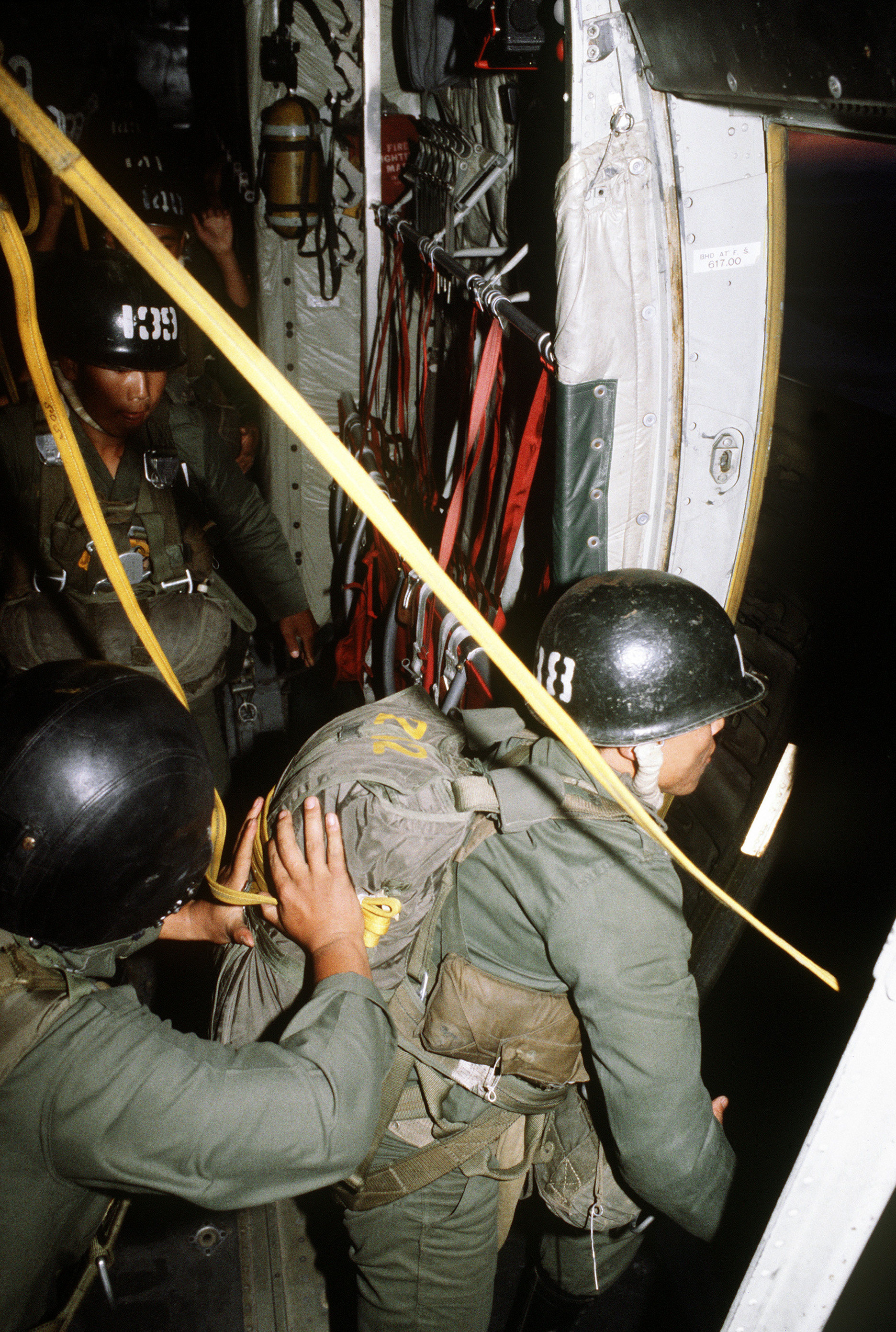 KoKorean paratroopers prepare to jump from a C-130 Hercules aircraft during exercise Purple Duck, a deployment from Yokota Air Base, Japan, to Kwang Ju Air Base, Korea, for joint operation readiness maneuvers with Korean troopers. Scope & Content The original finding aid described this photograph as: Subject Operation/Series: PURPLE DUCK Base: Kwang Ju Air Base Country: Korea Scene Camera Operator: TSGT Mike Daniels Release Status: Released to Public